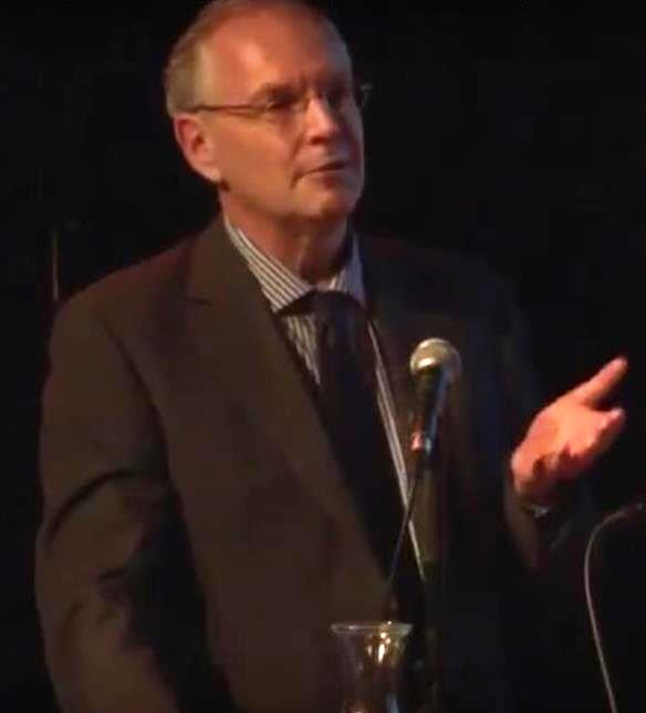 Dutch member of Parliament Raymond de Roon (PVV), 29 aug. 2012